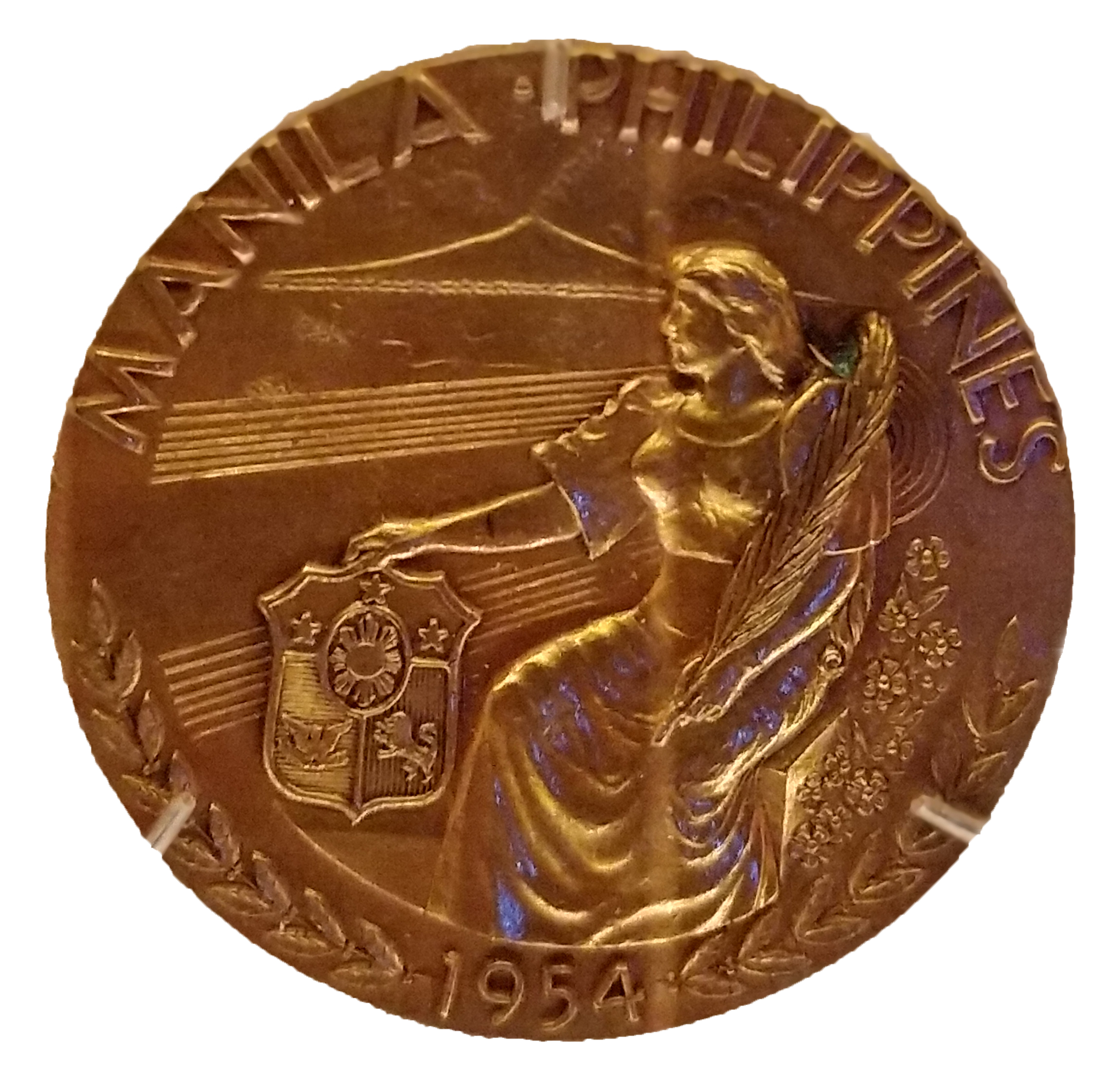 Obverse of the gold medal of the 1954 Asian Games. It is one of the gold medals awarded to Singapore where it won its only gold medal in Water polo, a team event.